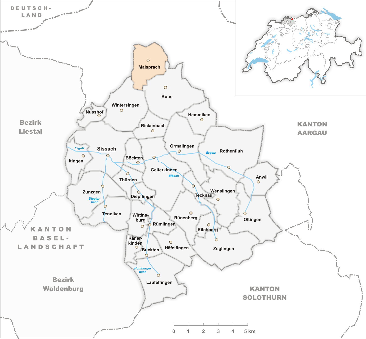 Municipality Maisprach